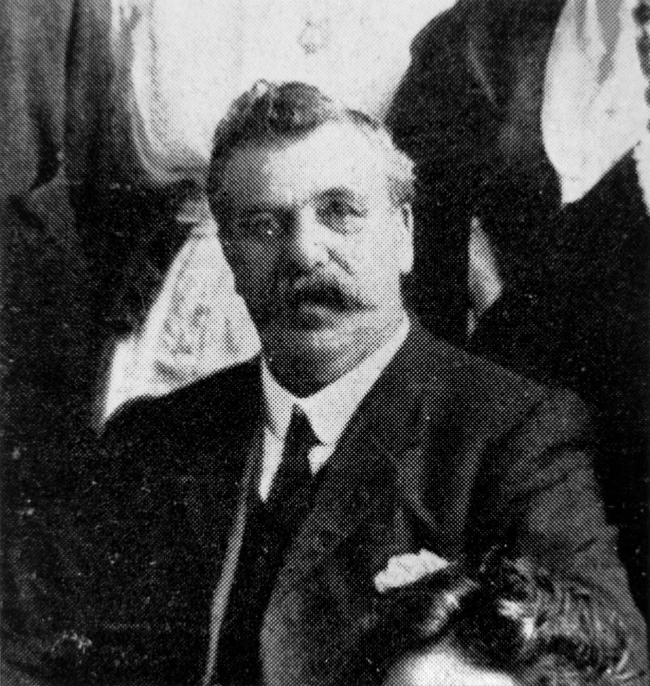 Portrait of H. G. O. Thomas. Mr H. G. O. Thomas, M.S.A F.Q.I.A was president of the Executive & Ladies Committee of St. Davids Society of Brisbane in 1921. (Description supplied with photograph).